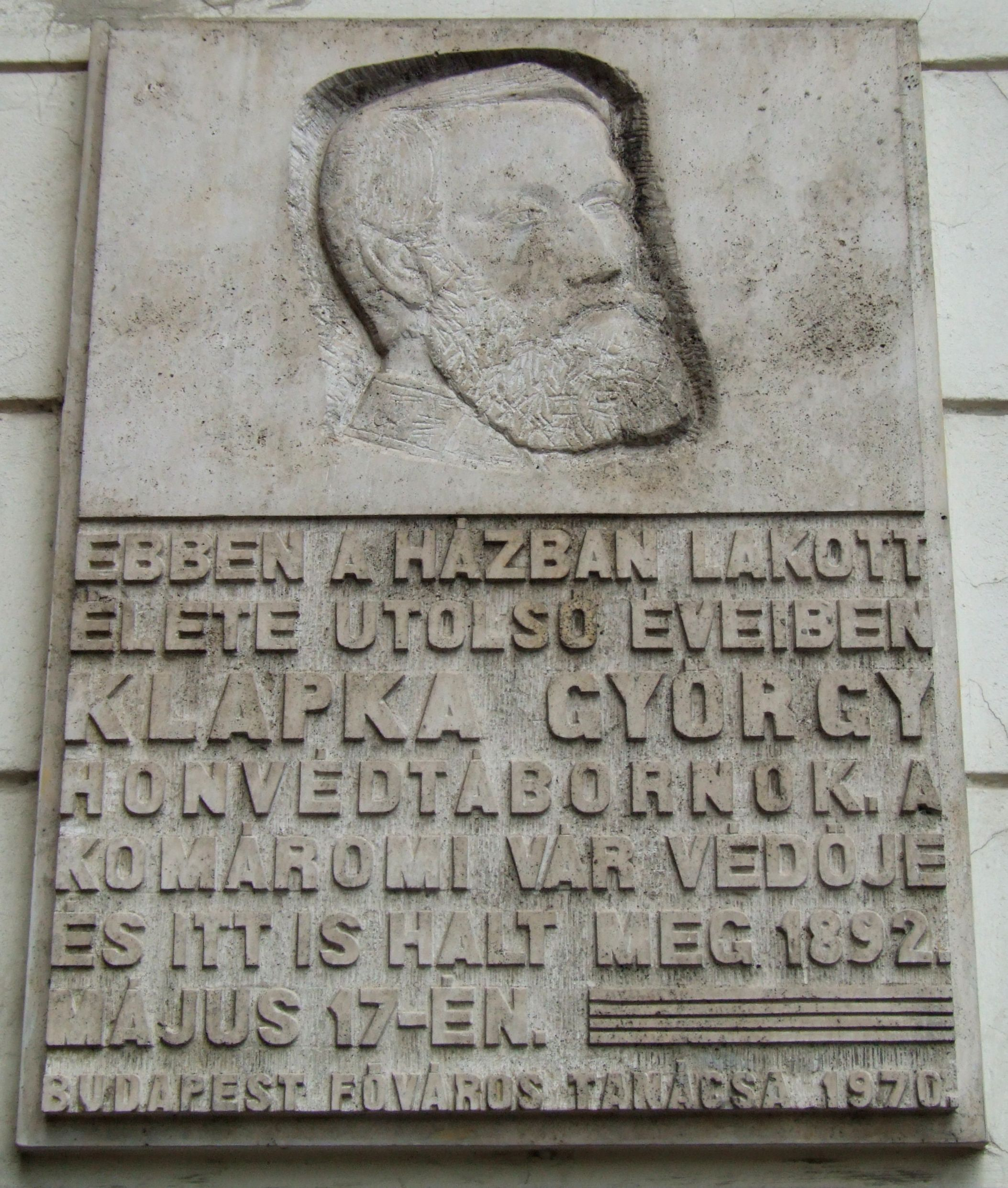 György Klapka commemorative plaque in Budapest District V, Akadémia Street No 1. Creator: Ferenc Kovács (sculptor).